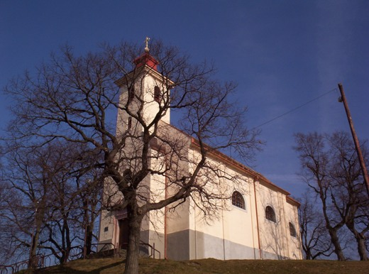 Chapel of Saint Rozalia.